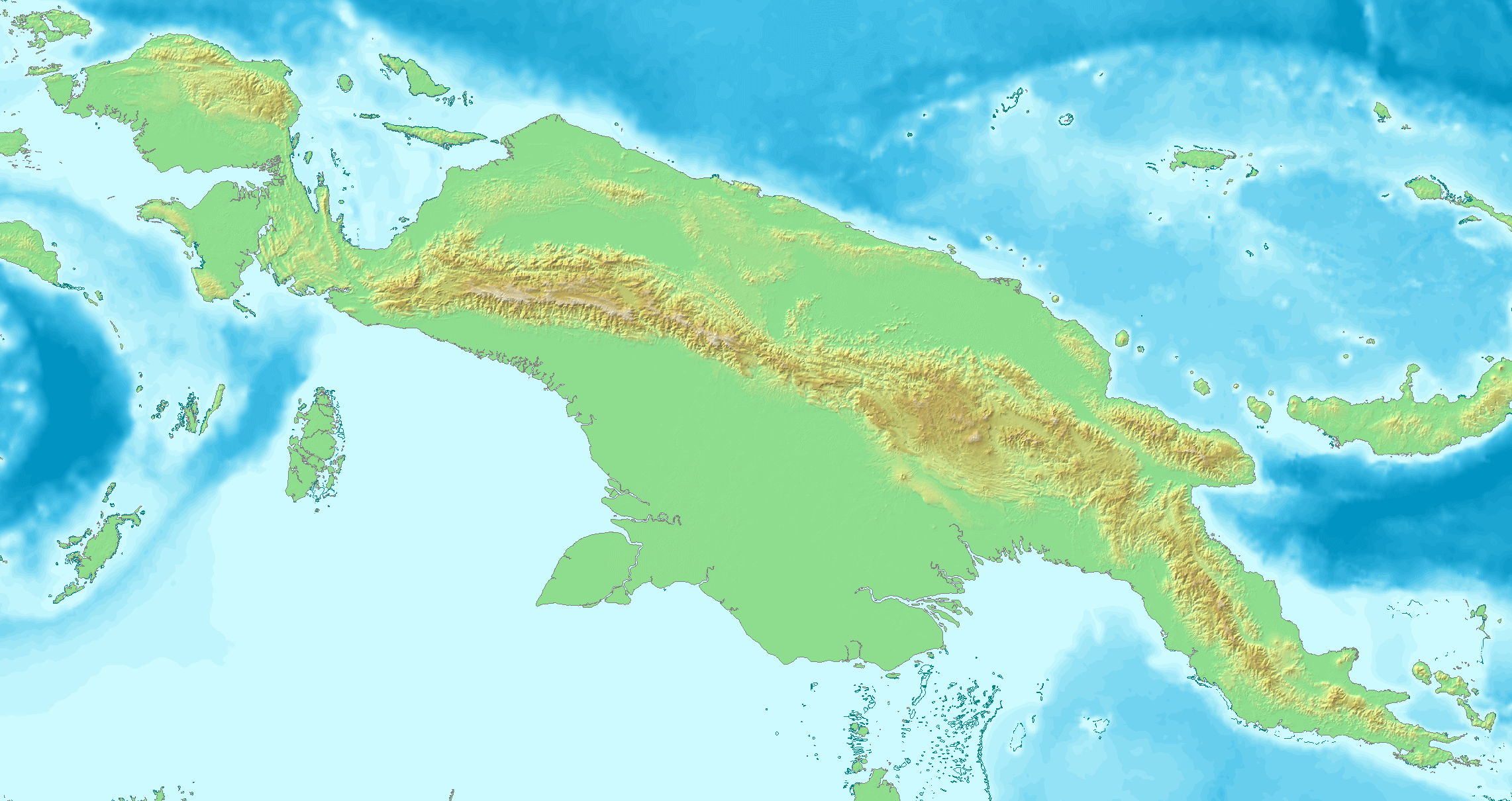 Topological map of Neu Guinea